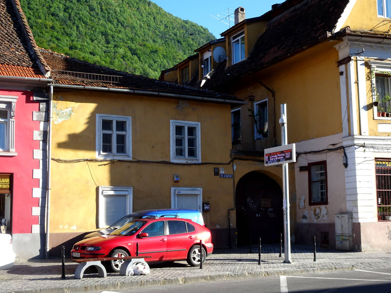 House in Bălcescu street, Brașov